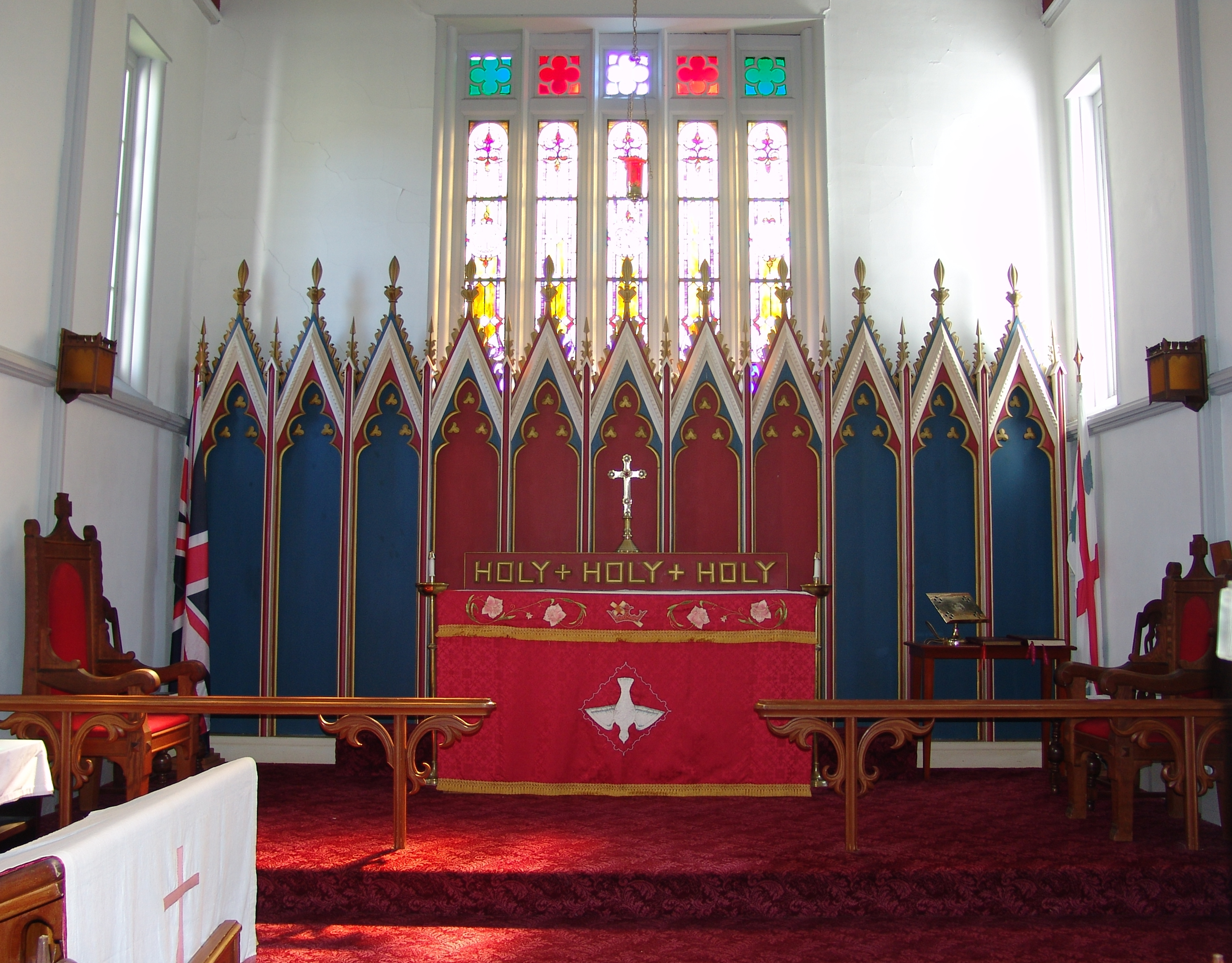 Wooden painted reredos in St James-On-the-Lines church in Penetanguishene, Ontario